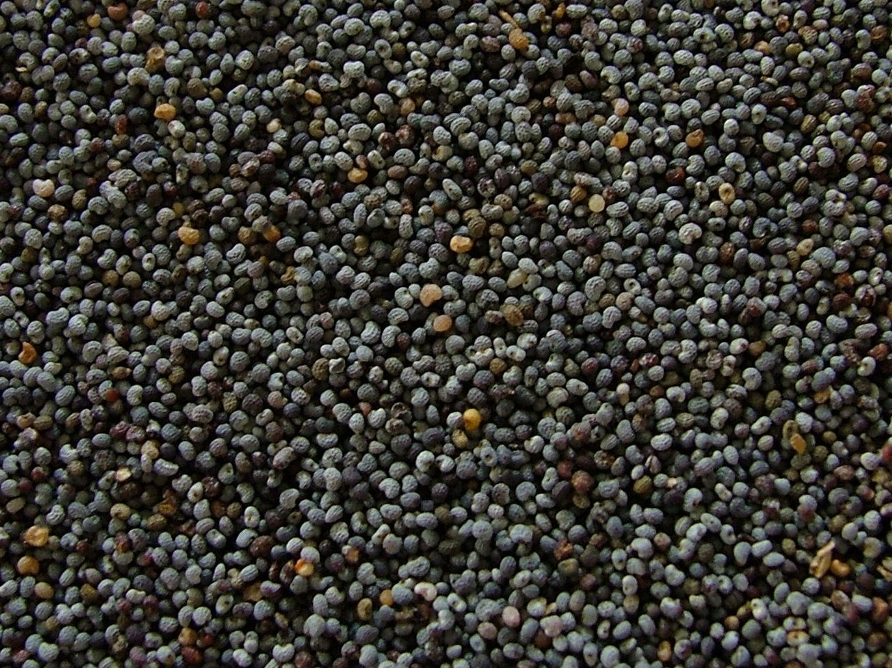 Opium poppy (Papaver somniferum) seeds. Poppy seeds, used to make poppyseed oil. Bulk poppy seeds, black.